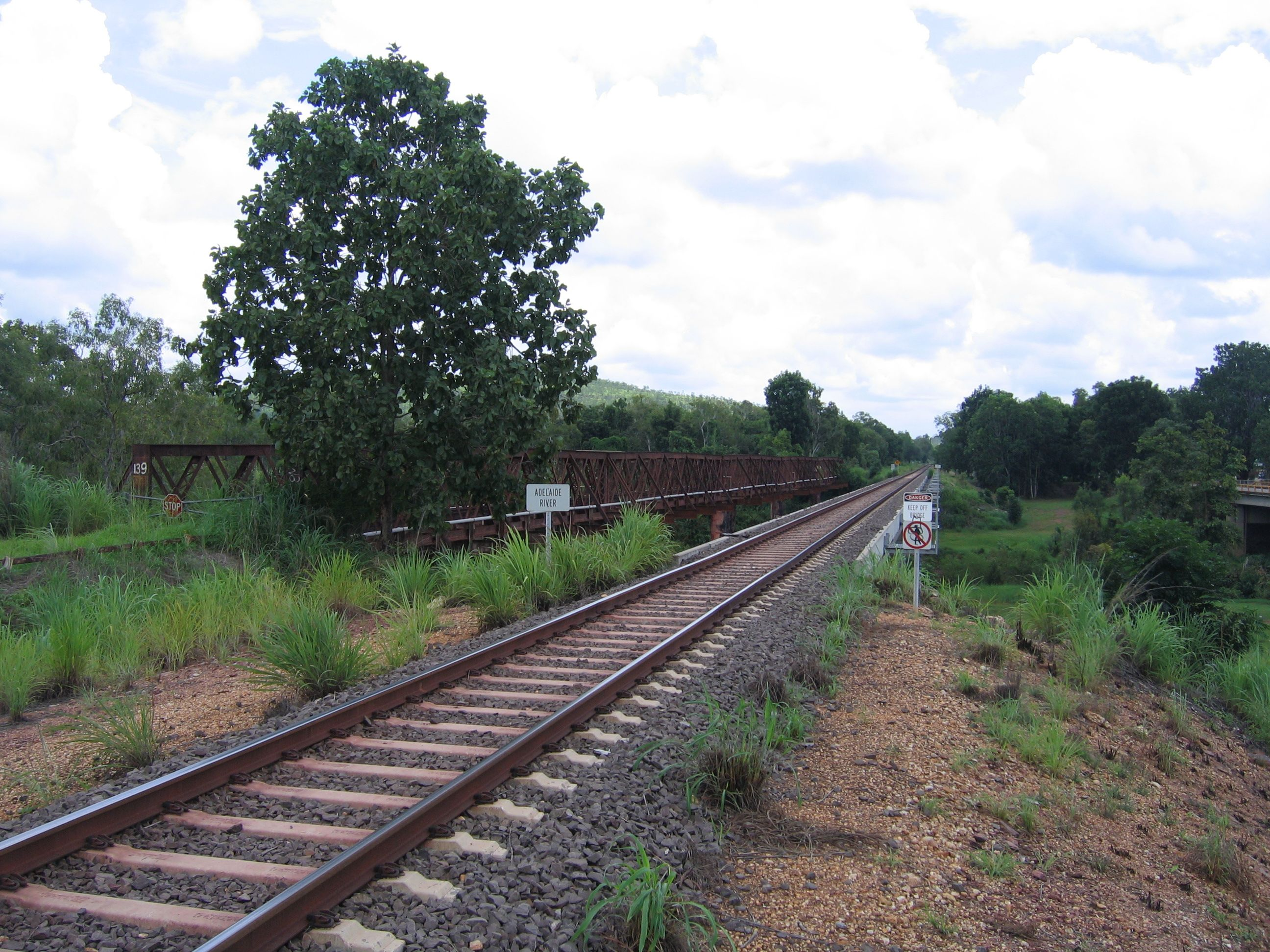 Old Railwaybridge of North Australia Railway (background) and Central Australian Railway (front) in and over Adelaide River, Northern Territorry Australia